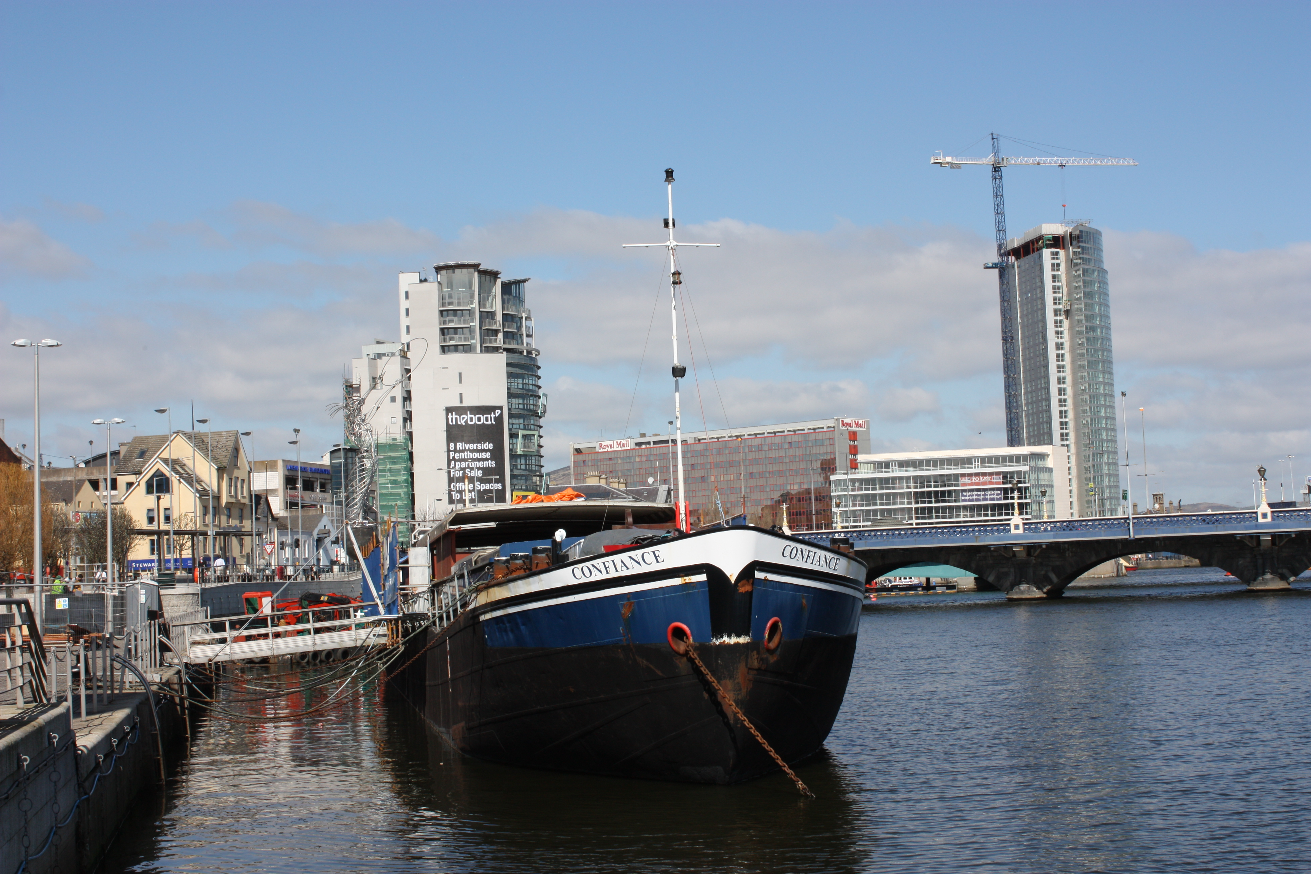 River Lagan at Lanyon Place, Belfast, Northern Ireland, April 2010